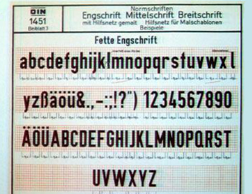 photograph of a specimen showing of DIN 1451's DIN-Engschrift typeface.